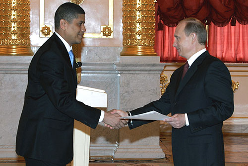 THE KREMLIN, MOSCOW. At a presentation ceremony of letters of credentials.With ambassador of the Republic of Equatorial Guinea Fausto Abeso Fumo.